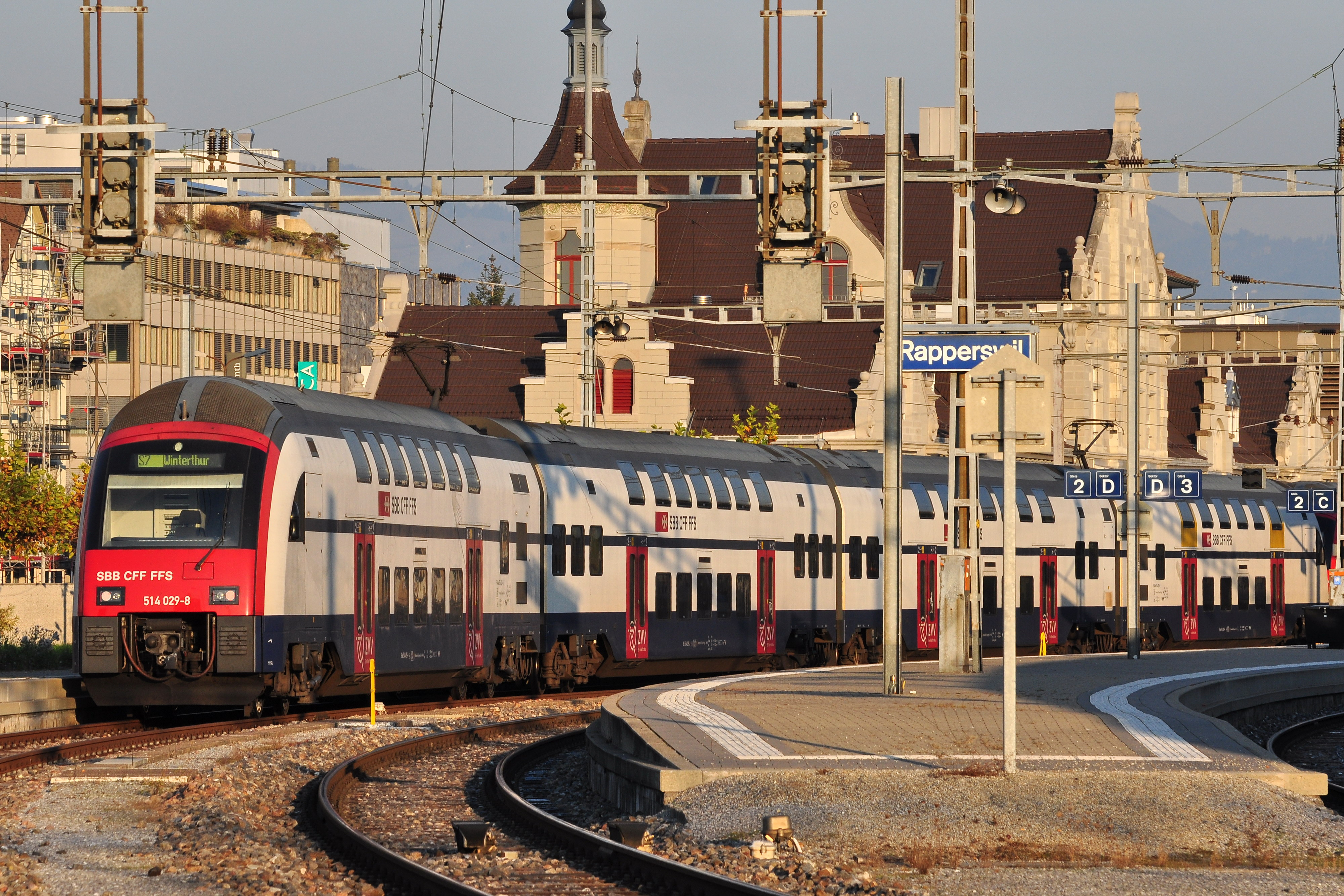 SBB RABe 514 of the S-Bahn Zürich's S7 line at the train station in Rapperswil (Switzerland), as seen from Seedamm.